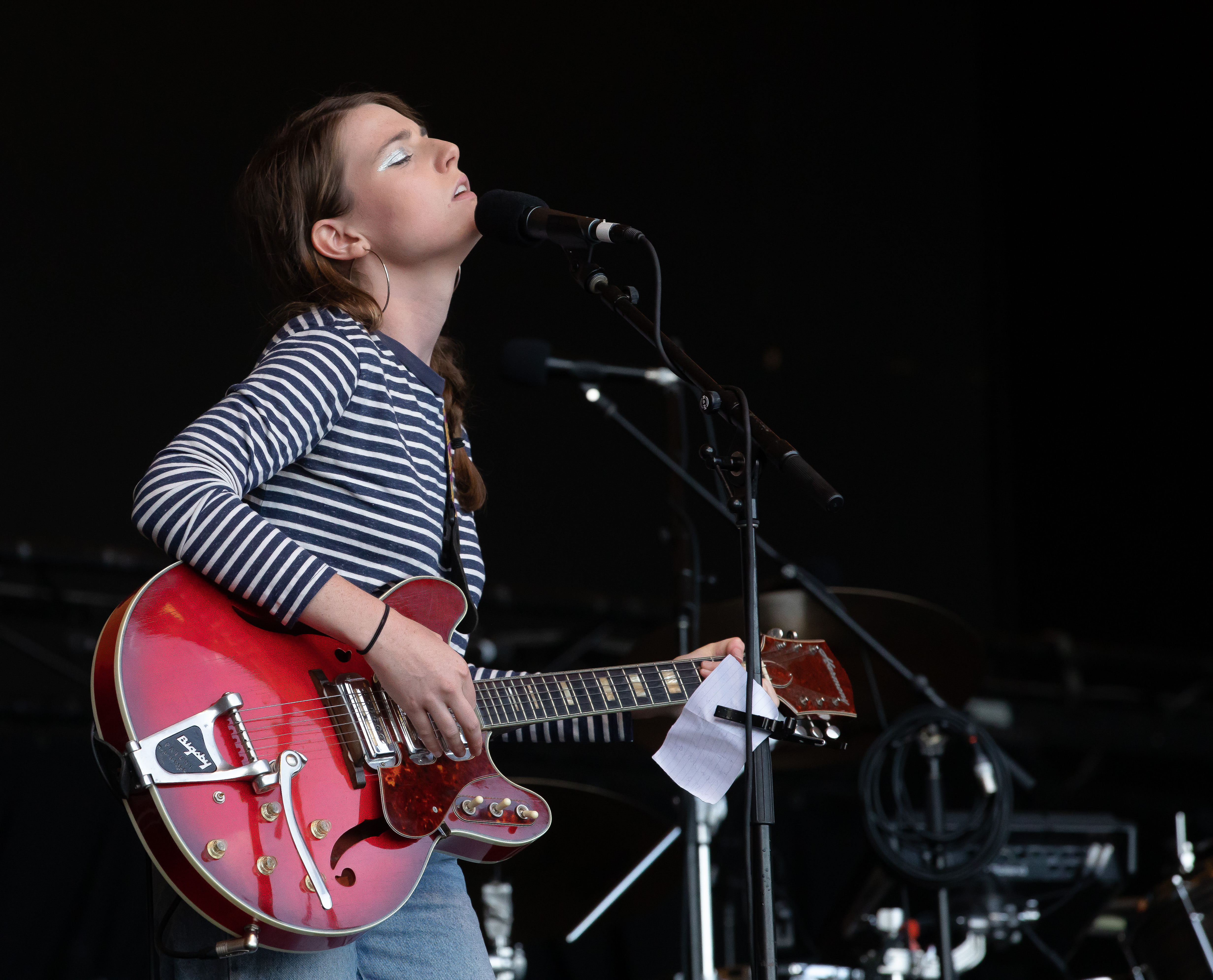 Angie McMahon performing as the opening act for Paul Kelly at The Domain in Sydney on 15th December 2018